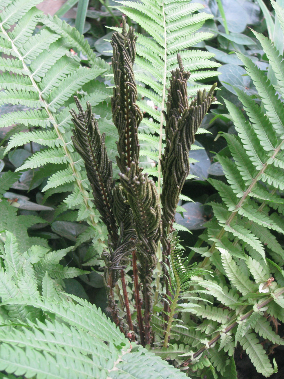 Matteuccia struthiopteris. Fertile and sterile fronds. Savinsky district, Ivanovo Oblast, Russia